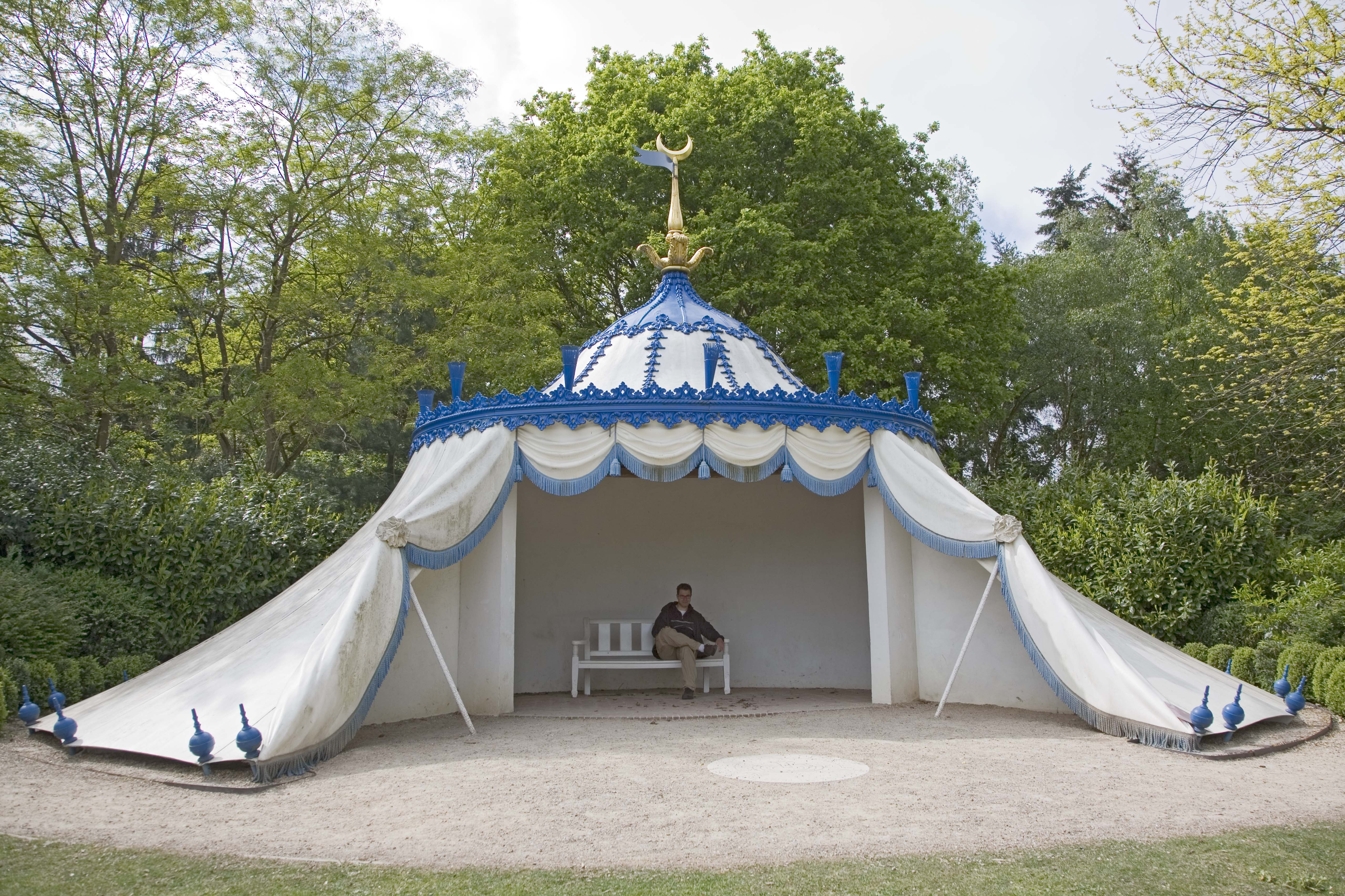 The TurkishTent folly element — in the Painshill Park landscape garden, Surrey. Author: Antony McCallum